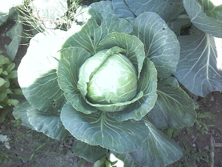 Cabbage (Brassica oleracea var. capitata f. alba) in Lónyaytelep, Tranyalvania.